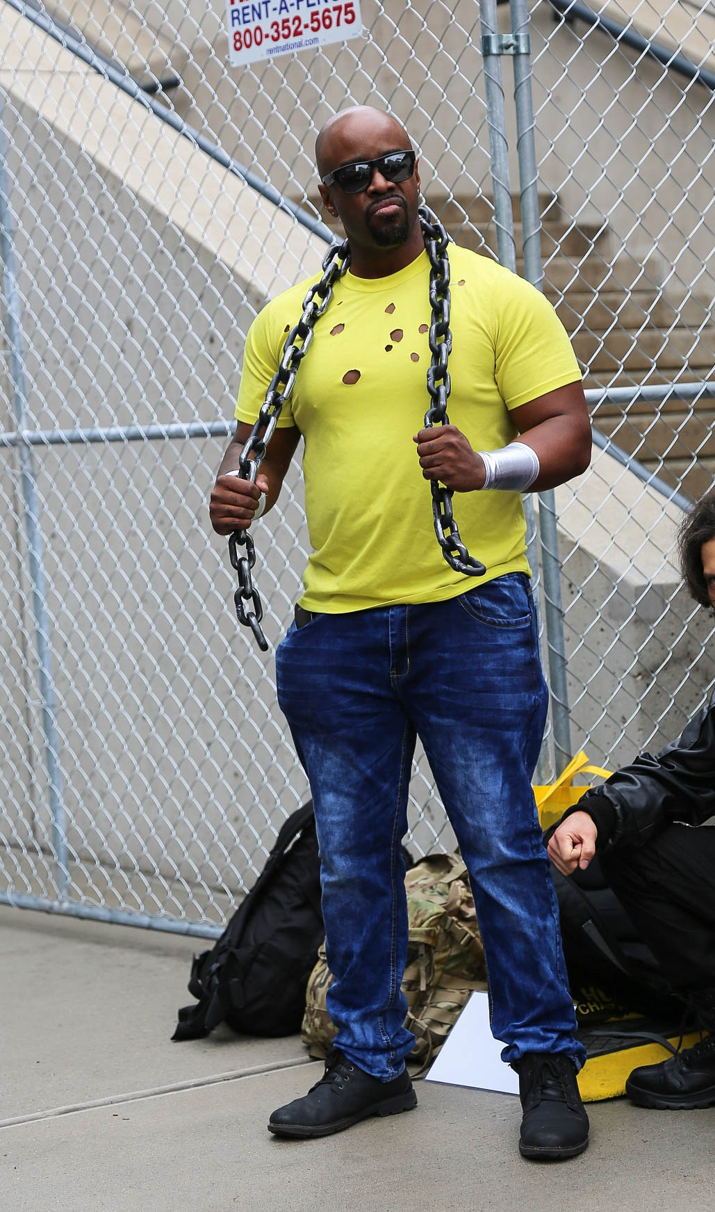 Cosplay at the 2016 New York Comic Con.